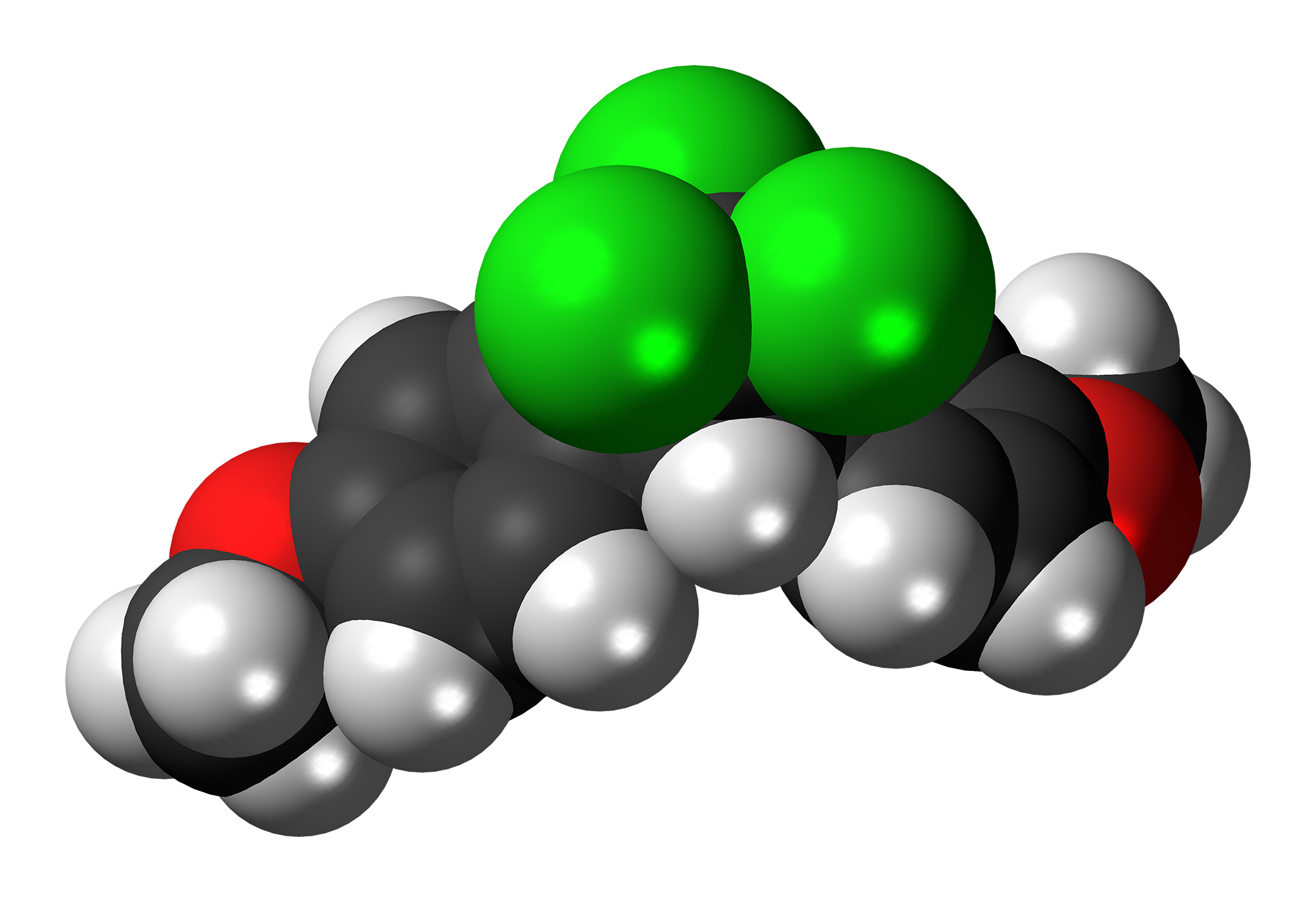 Space-filling model of the methoxychlor molecule, an insecticide. Color code: Carbon, C: black Hydrogen, H: white Oxygen, O: red Chlorine, Cl: green